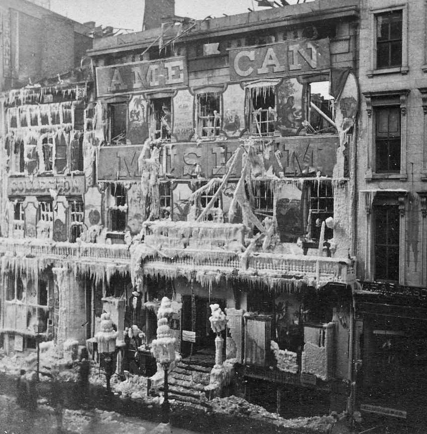 This file has been extracted from another file: Stereo card of Barnum's American Museum, 539–41 Broadway, New York City.jpg